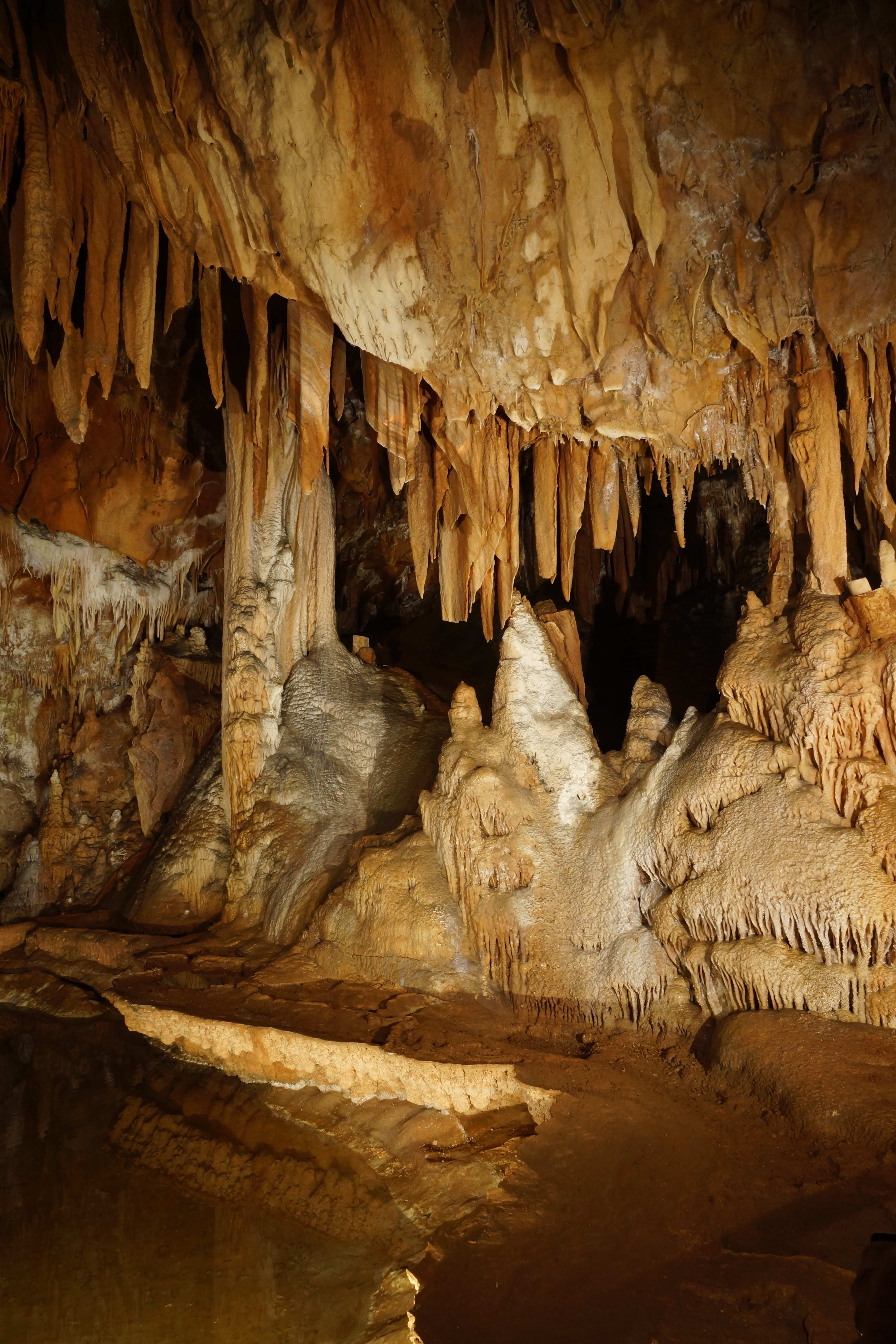 Gour Grotte de la Madeleine